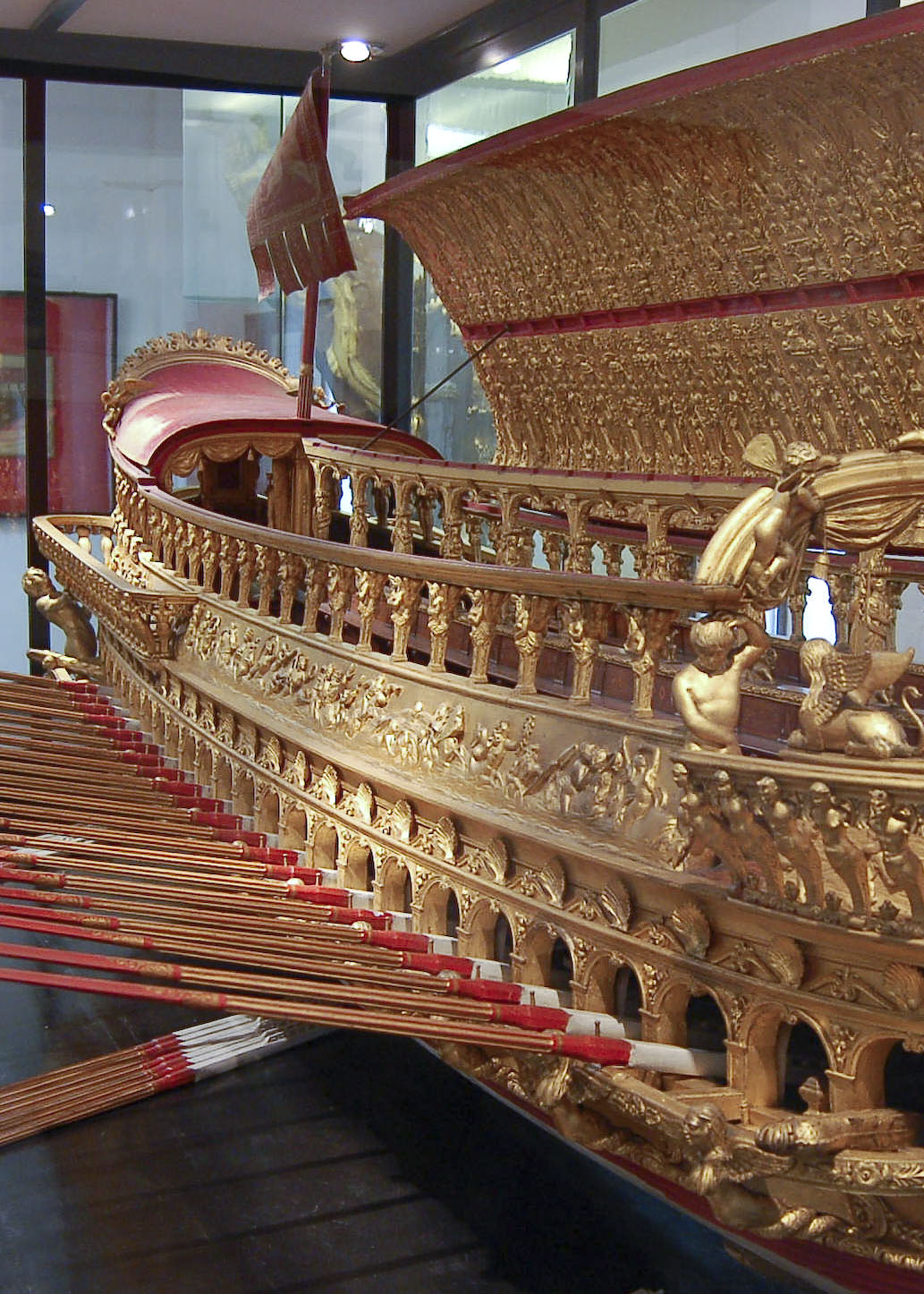 This is the side of a model of the Venetian state galley Bucentoro It is displayed the Venetian naval history museum, Museo Storico Navale.